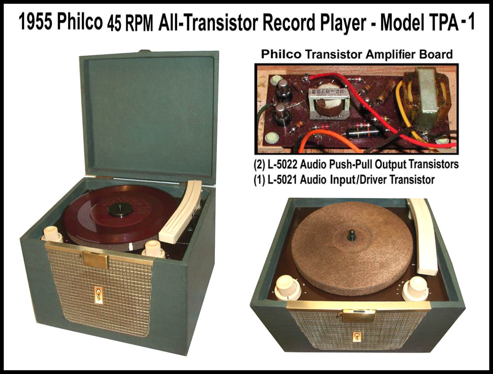 This is my 1955 Philco All-Transistor Phonograph model TPA-1, which I had also taken the photo showing its insides.